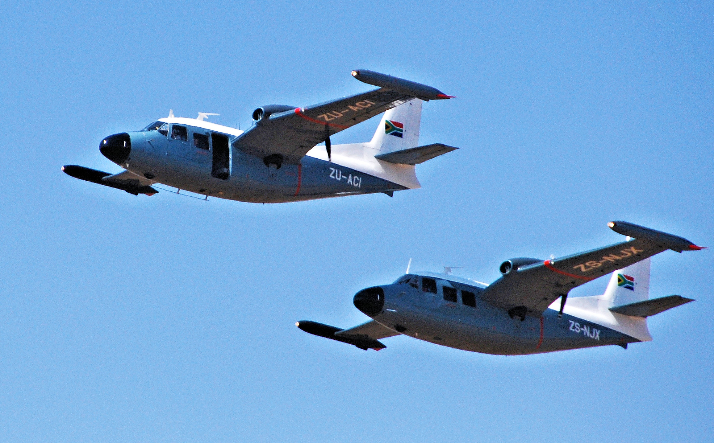 Albatros ZU-ACI (Ex SAAF 885) and ZS-NJX (Ex SAAF 884) at Vereeniging Airport, South Africa